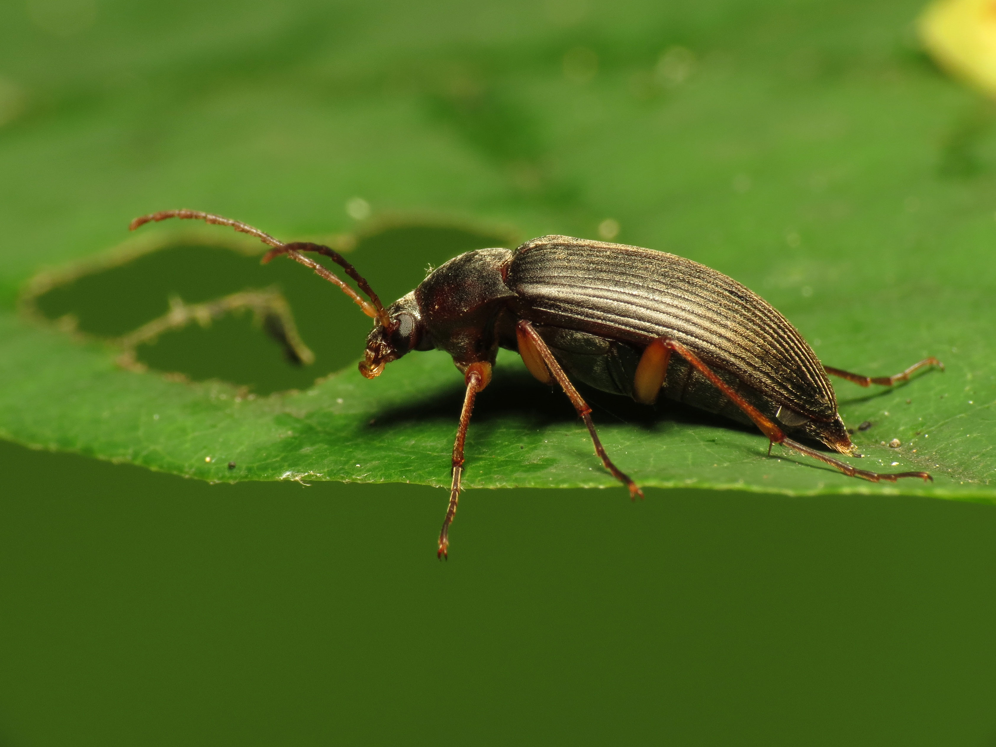 Androchirus erythropus. Rock Creek Park, Washington, DC, USA